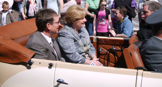 Mayor of Cheshire East ,Councillor Mrs Margaret Simon,at Sandbach Transport Festival